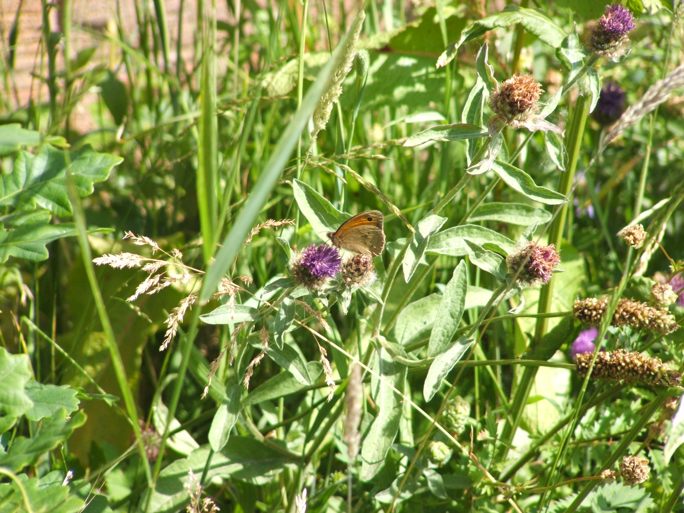 Meadow Brown Maniola jurtina feeding on Common Knapweed Centaurea nigra.